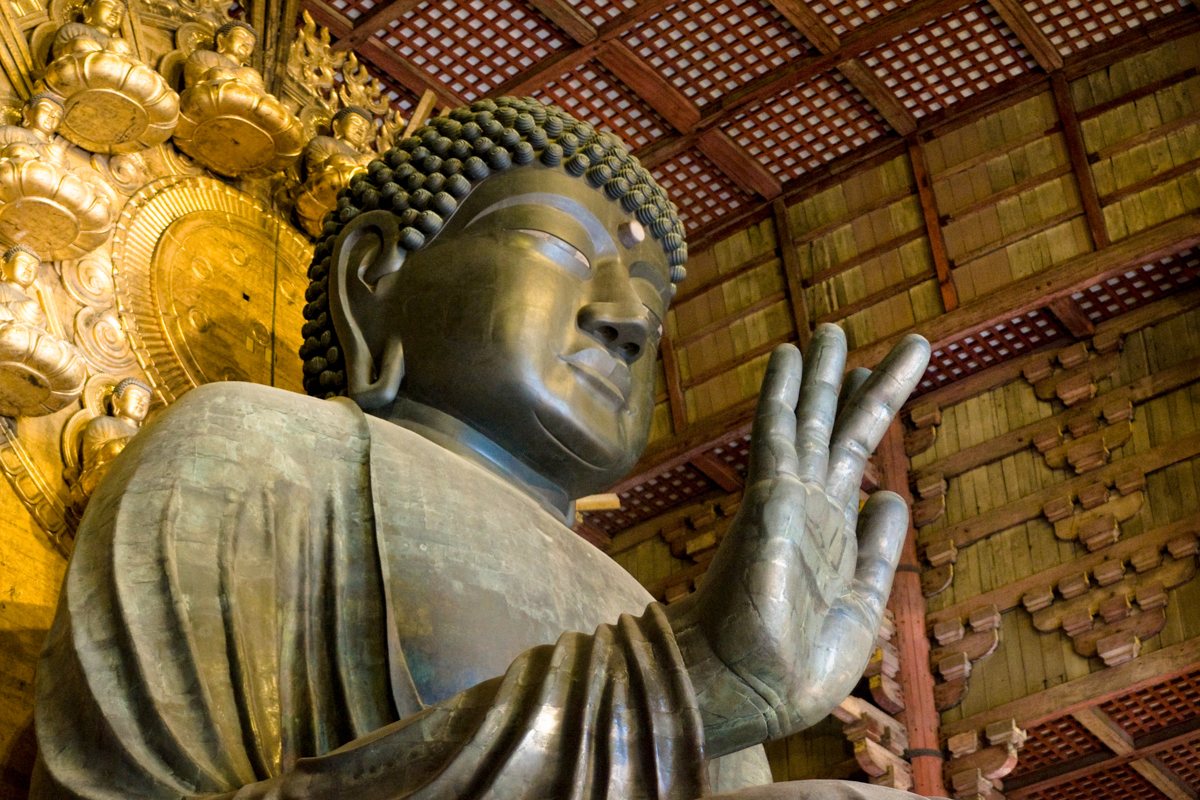 Close up view of Great Buddha Hall Daibutsu in Tōdai-ji temple complex. Nara, Nara Prefecture, Kansai Region, Japan